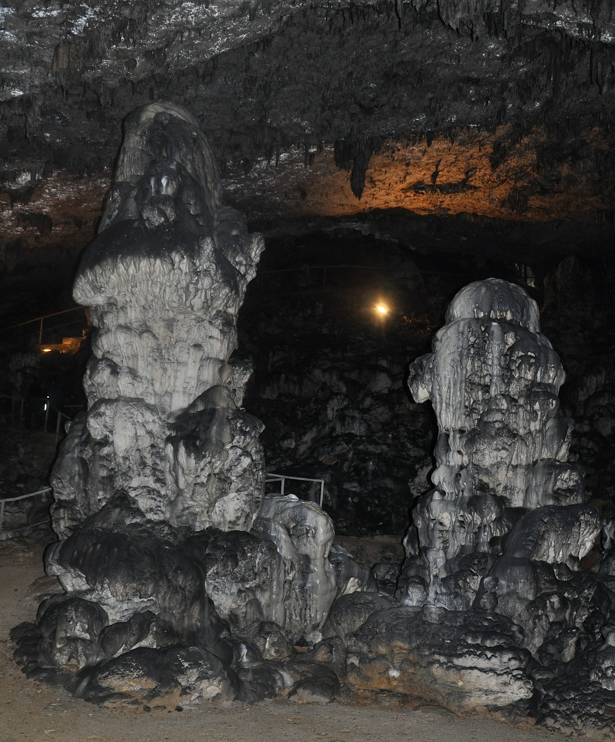 Ćrna jama, cave in Slovenia